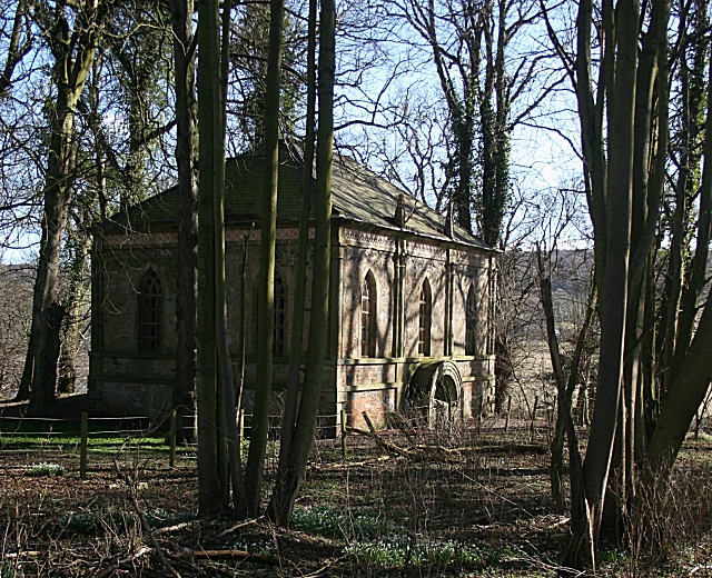 Duff House Mausoleum This elaborate building was erected by James Duff in 1790, when he was raised to the rank of 2nd Earl of Fife. He moved the remains of his forebears here, including those of his father the first earl, who built Duff House. For full details and Generally speaking, I am in favour of trees, but there are cases where the removal of a few would be beneficial, and this is one of them. It is all but impossible to get a proper view of the mausoleum, and the trees are so close that there must be a risk of them damaging the building.